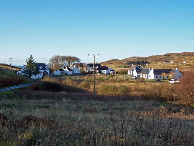 Downtown Glendale